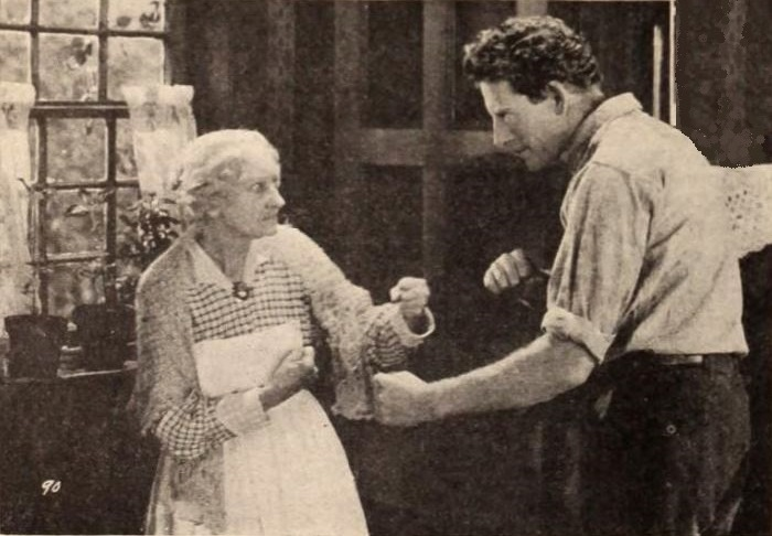 Still from the American drama film The Forbidden Thing (1920) with Gertrude Claire and James Kirkwood, on page 82 of the November 13, 1920 Exhibitors Herald.